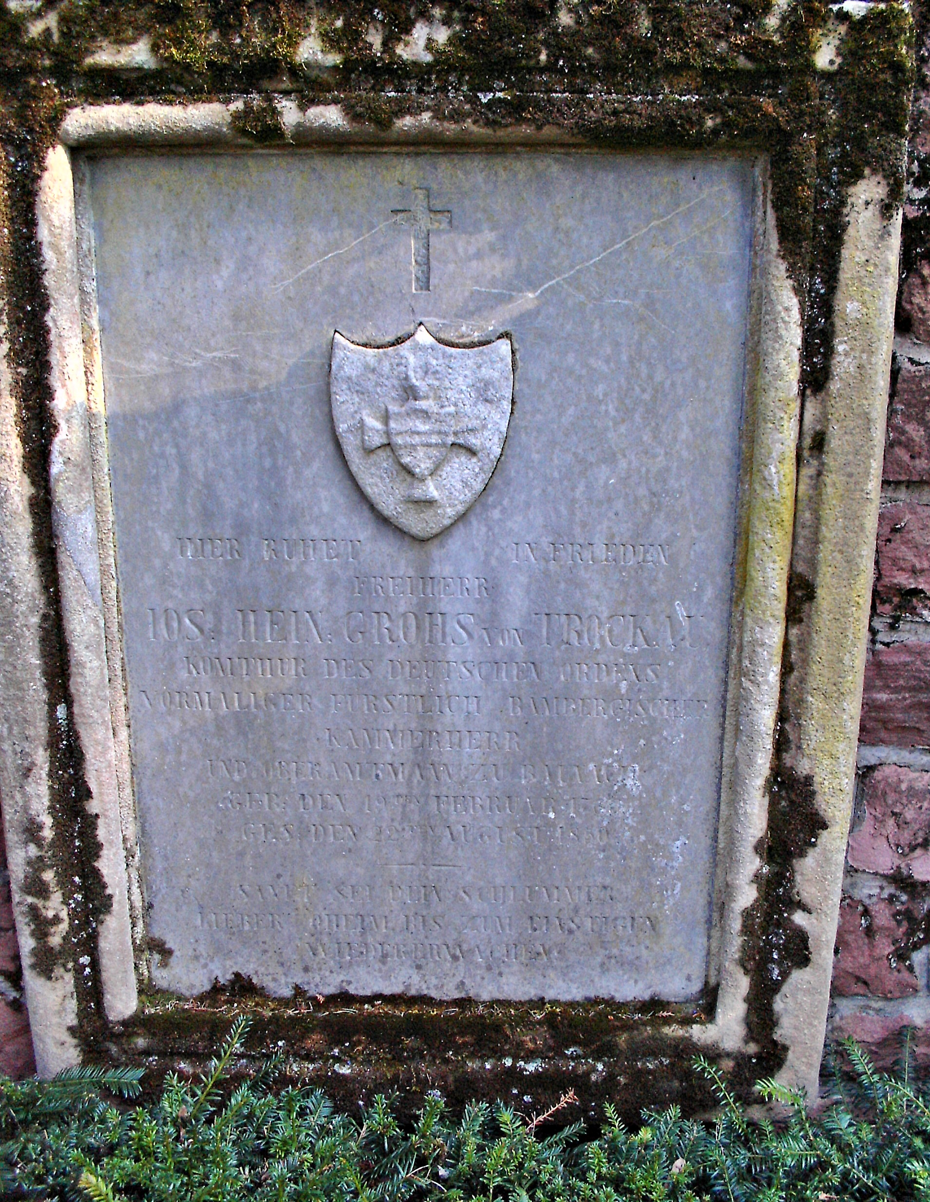 Grabstein Joseph Heinrich Groß von Trockau, (1766-1850), Deutschordenskomtur, Hauptfriedhof Mannheim